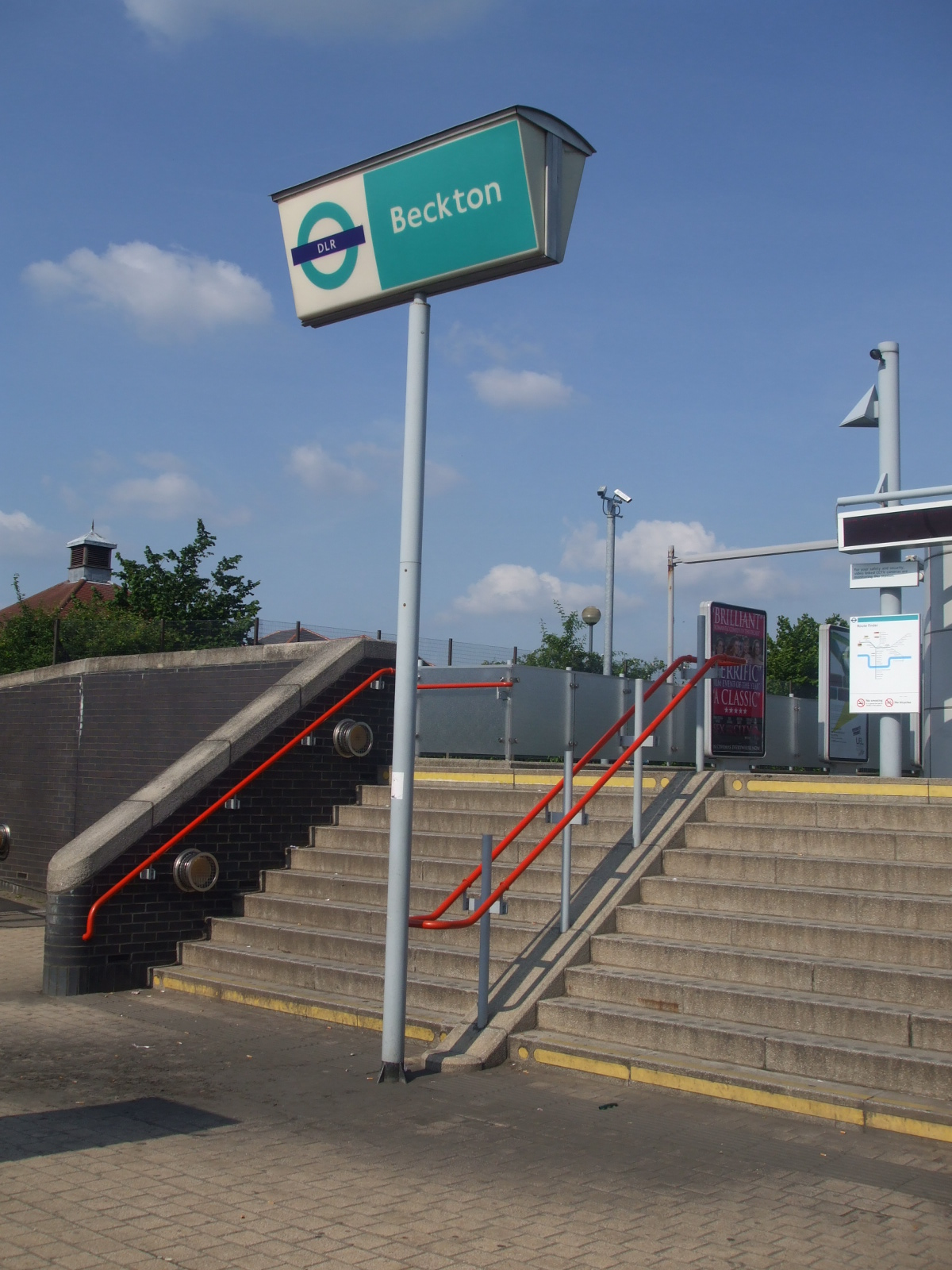 Beckton DLR station entrance